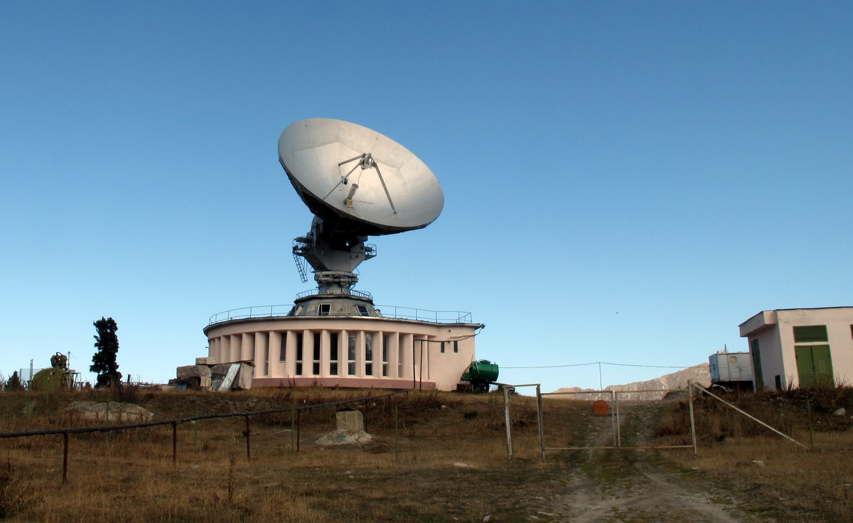 was making slight corrections all the time as it was tracking the sun and its flares. this place is like the mt. wilson of almaty -- -- it's open to renting, but will need some repairs in soviet times it was called GaiSh: government observatory of shteynberg.